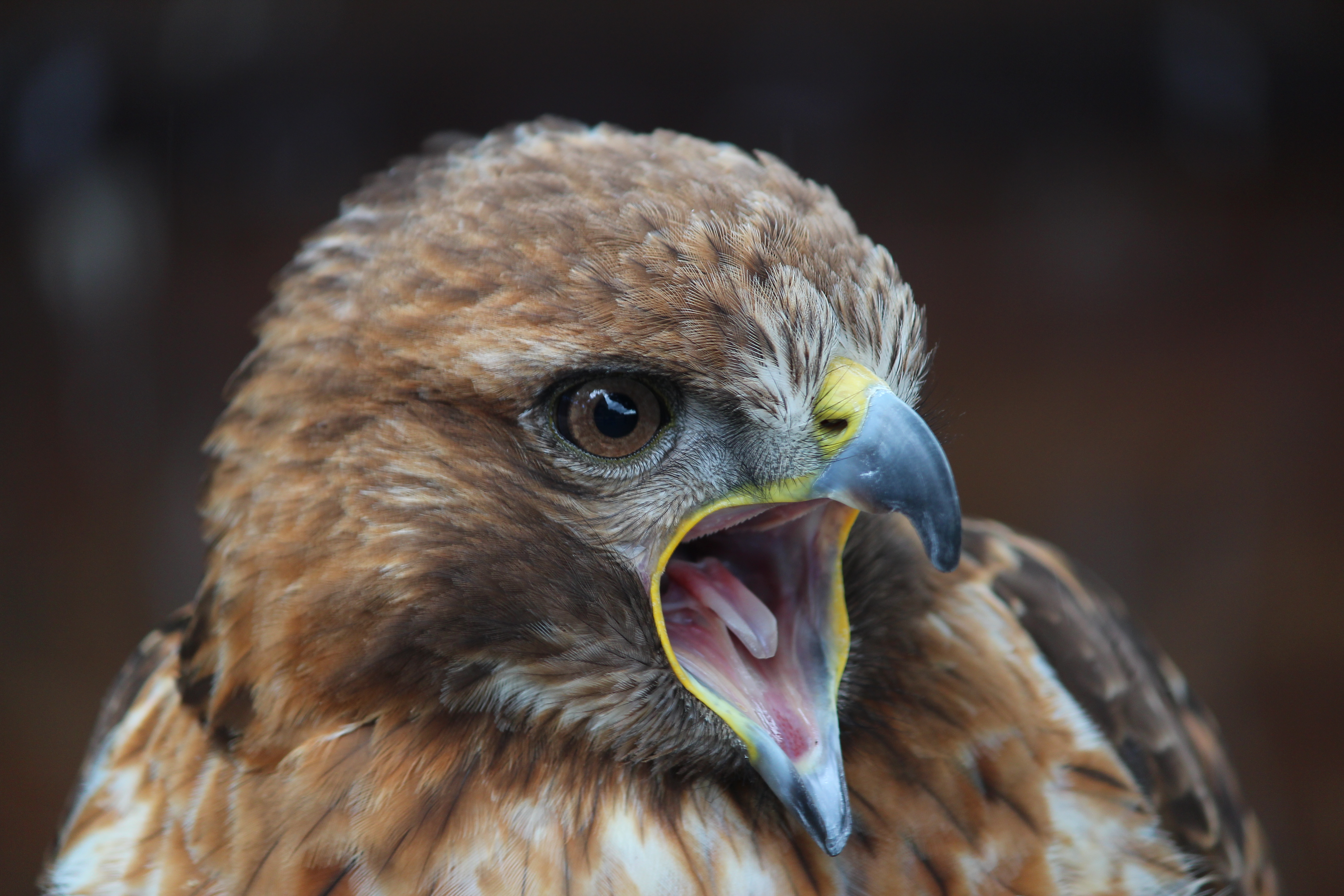 A red-tailed hawk